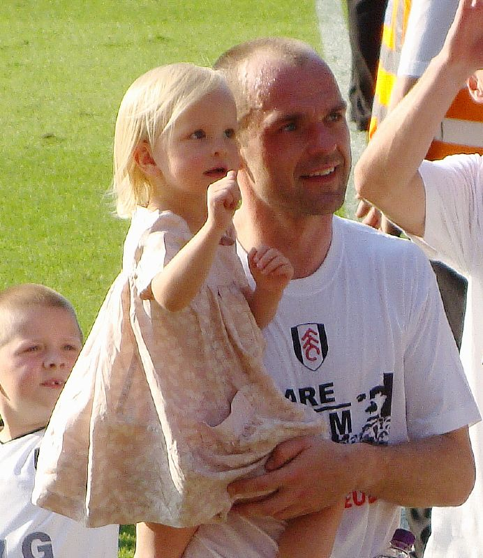 Danny Murphy of Fulham F.C. taking a lap of honour after the end of the 2008-09 season